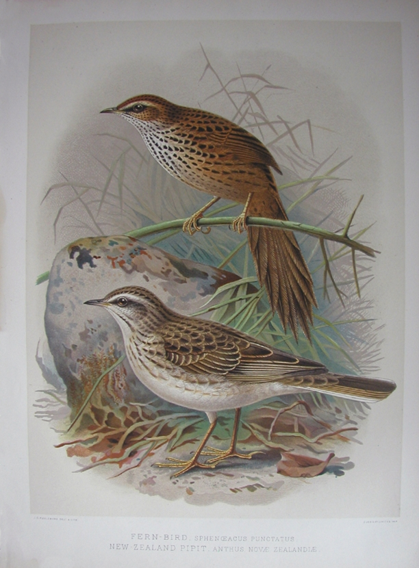 Top - Fernbird (Bowdleria punctata). Bottom - New Zealand Pipit (Anthus novaeseelandiae).